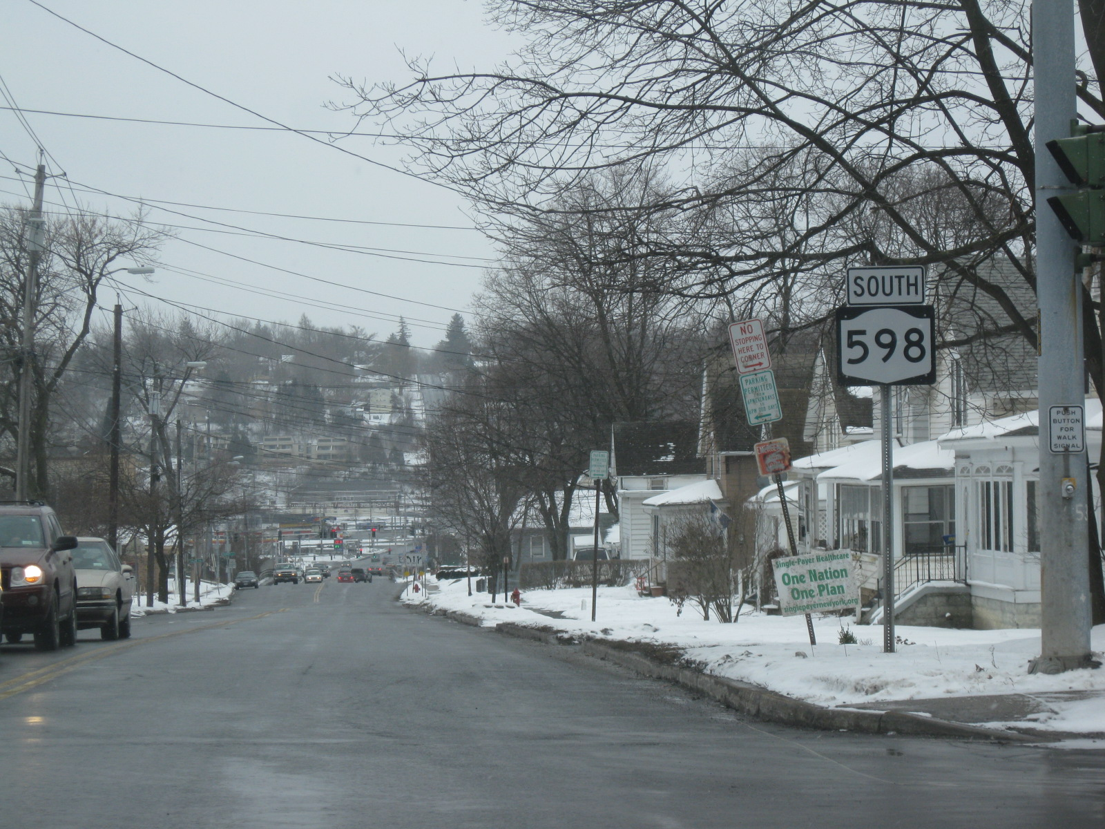 New York State Route 598 heading southbound along a snow-covered South Midler Avenue at the intersection with Sunnycrest Road in Syracuse, New York.